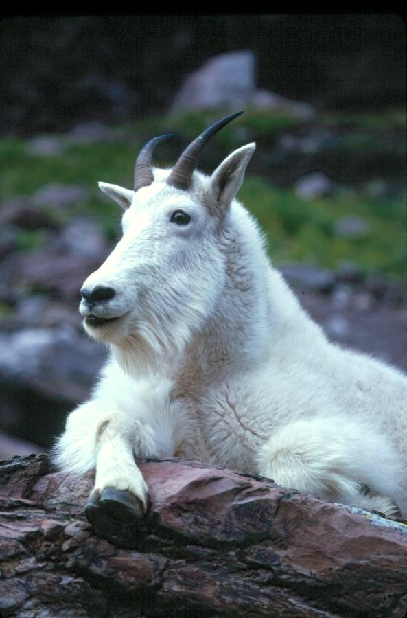 Mountain goat (Oreamnos americanus) in Glacier National Park, Montana, USA.